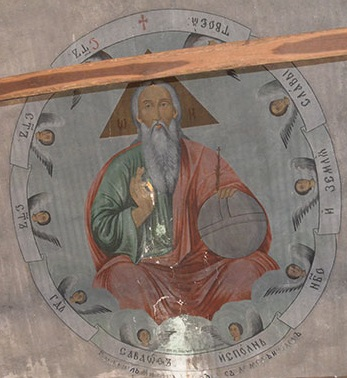 Donja Ljubata Church Fresco